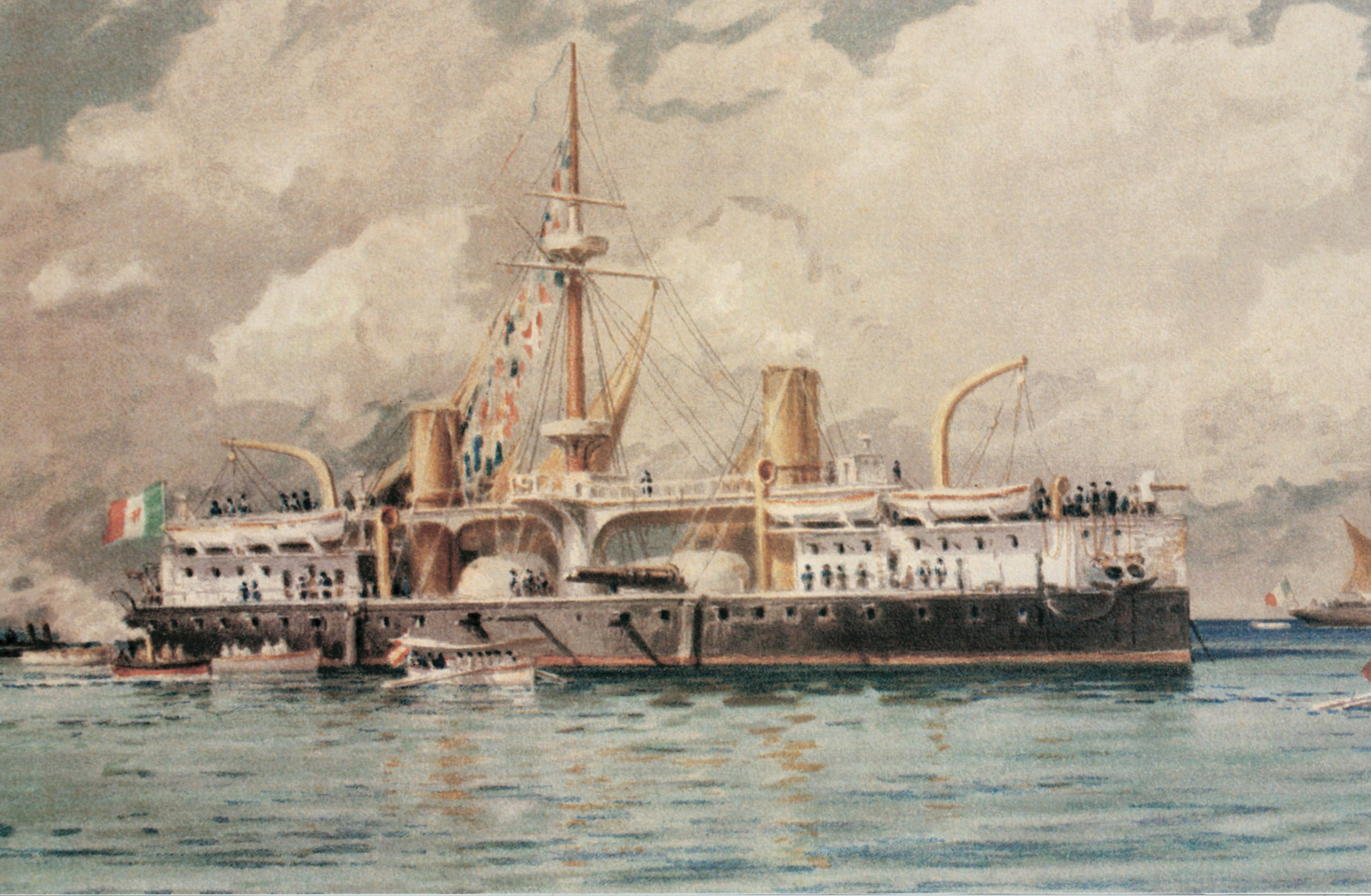 The painting depicts the launching of the Italian battleship Ruggiero di Lauria on August 1884